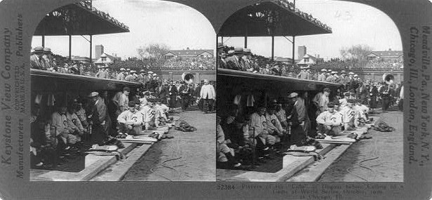 Stereopticon view of Cubs dugout, Wrigley Field, 1929 World Series, October 1929